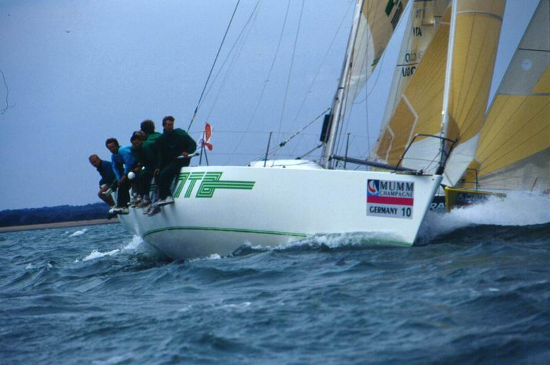 Pinta Admirals Cup 93 full speed